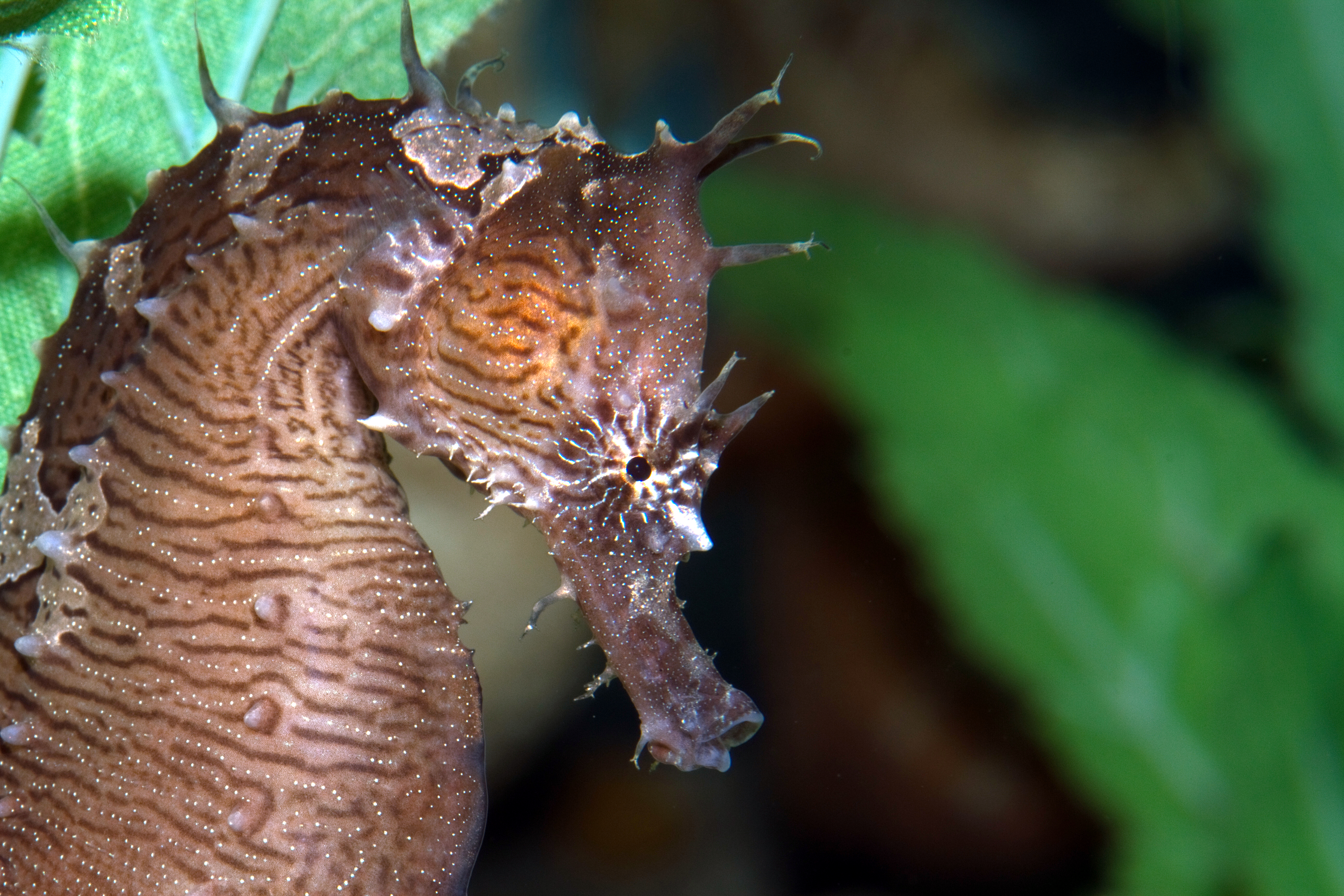 Lined seahorse, Hippocampus erectus